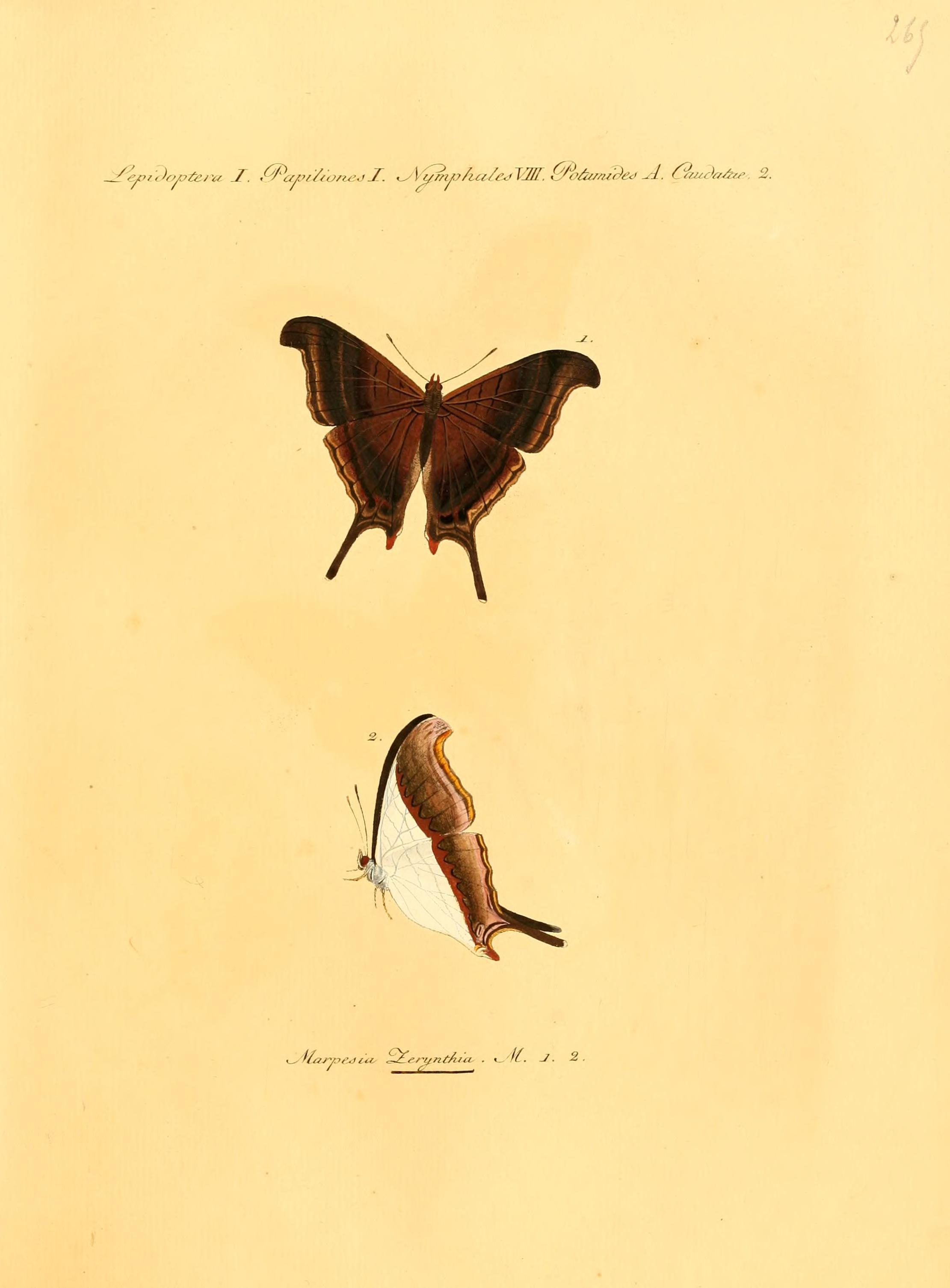 Jacob Hübner Sammlung exotischer Schmetterlinge Vol. 2 ([1819] - [1827] Plate 51 Marpesia zerynthia Hübner, [1823]